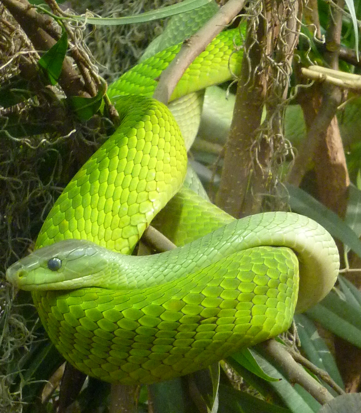 Green Mamba (Dendroaspis viridis), photo taken at the TerraZoo Rheinberg, Germany